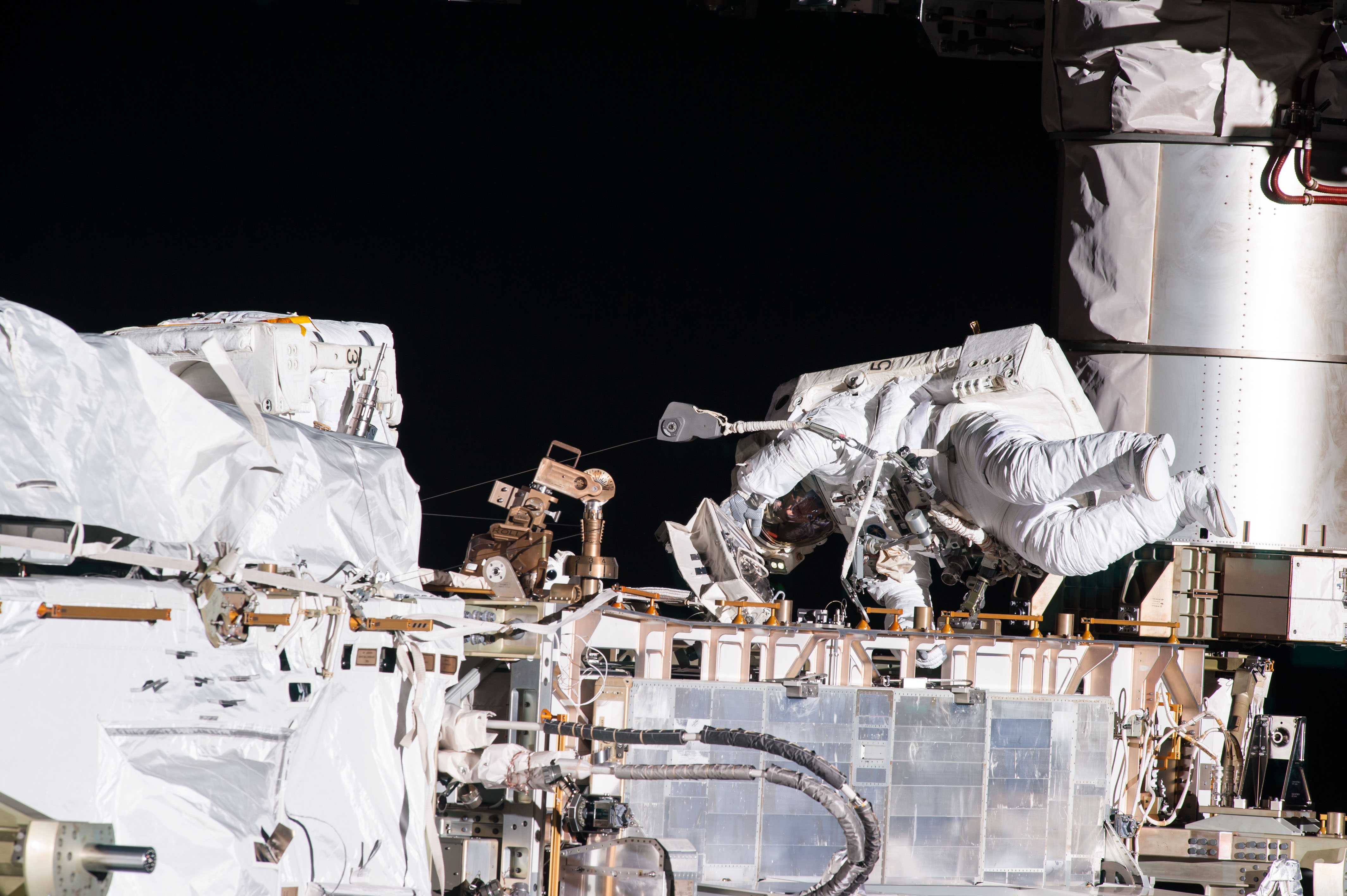 Expedition 35 Flight Engineers Tom Marshburn (pictured) and Chris Cassidy (out of frame) completed a space walk at 2:14 p.m. EDT May 11 to inspect and replace a pump controller box on the International Space Station's far port truss (P6) leaking ammonia coolant. The two NASA astronauts began the 5-hour, 30-minute space walk at 8:44 a.m.